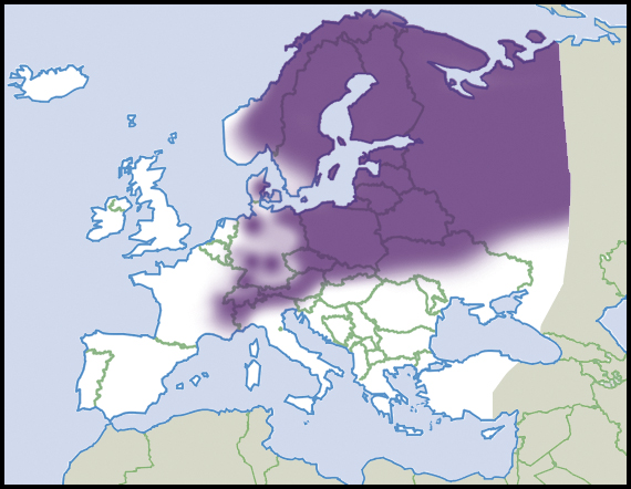 Nesovitrea petronella (Pfeiffer, 1853). Distribution in Europe, scientific state of knowledge of 2012. Source description in English. Light colour indicated rare occurrences or regions where the species could eventually be expected to occur. Dark colour indicated relatively reliable occurrences, as well as regions where the species was expected to occur, and where the species was not known to be extremely rare. Dark colour indications were not necessarily based on published records. Species summary in AnimalBase